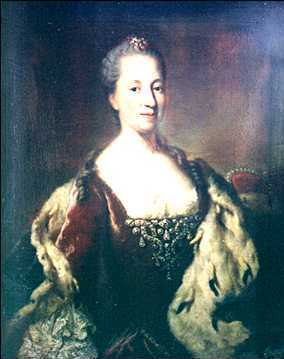 Portrait of Maria Anna of Sulzbach, wife of the Duke Clement Francis of Bavaria